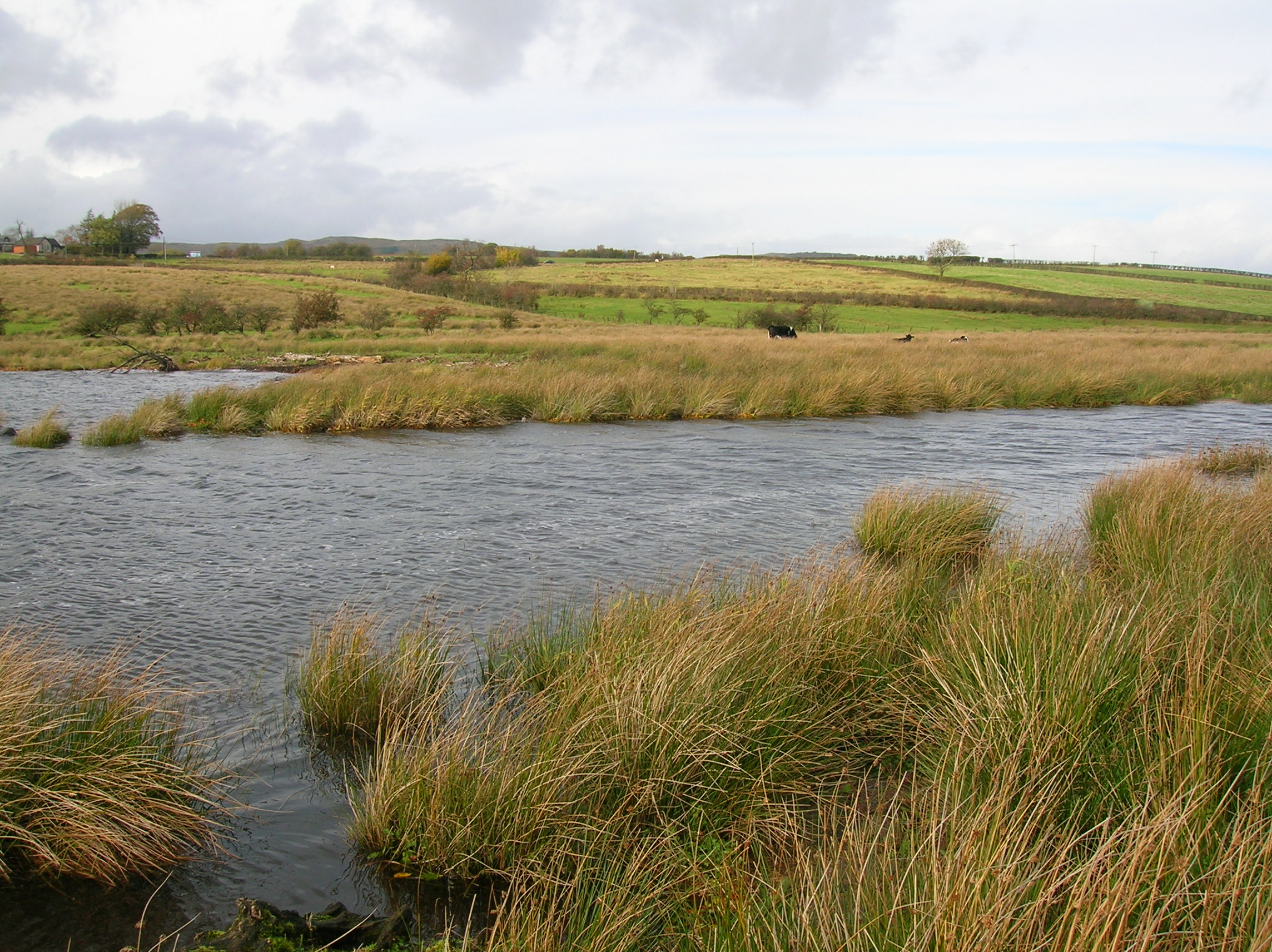 The mouth of the Maich Water emptying into Kilbirnie Loch, Ayrshire, Scotland